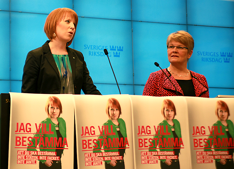 Annie Johansson and Maud Olofsson Photo: Anna-Karin Nyman